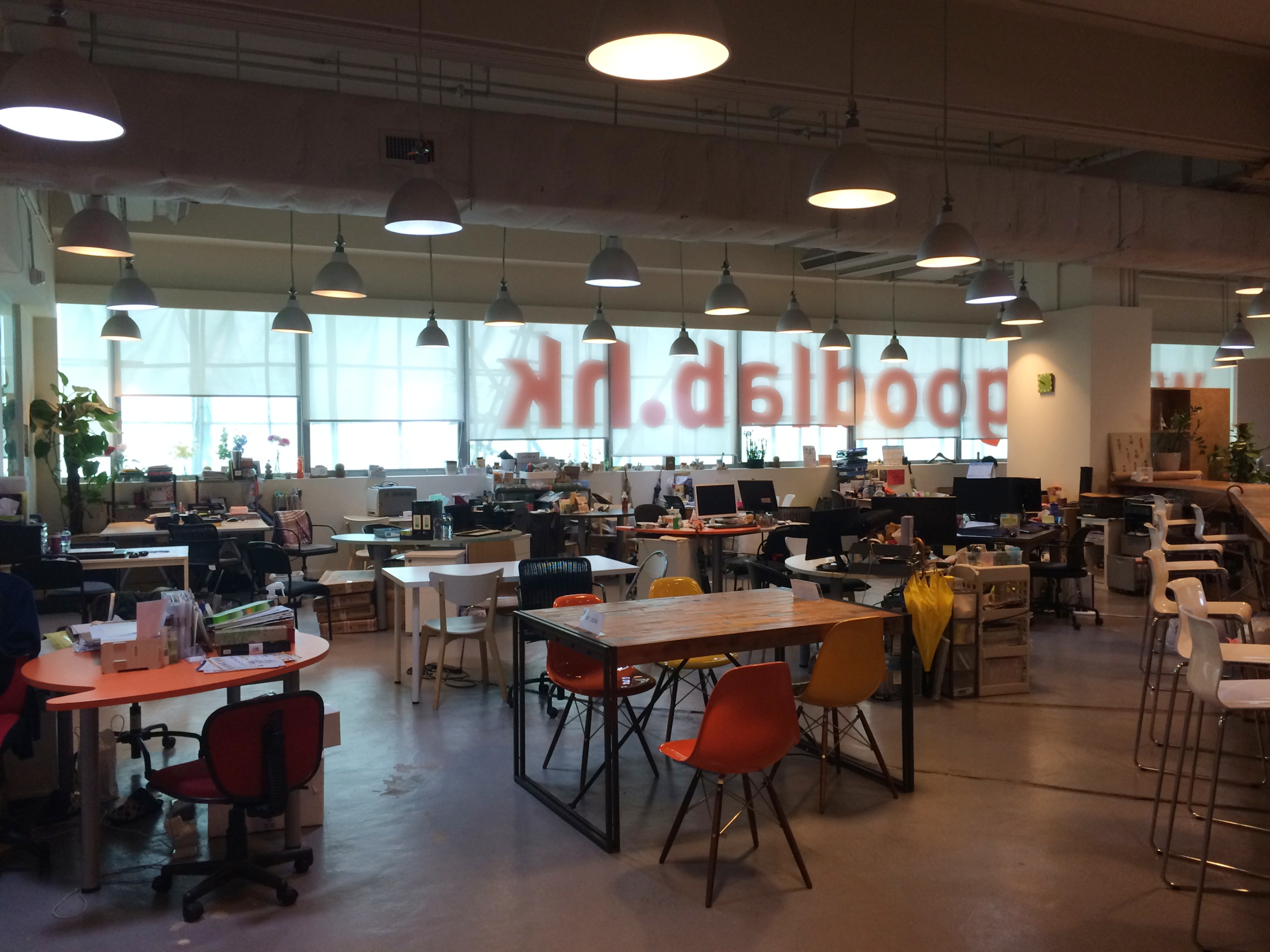 The Good Lab Office area